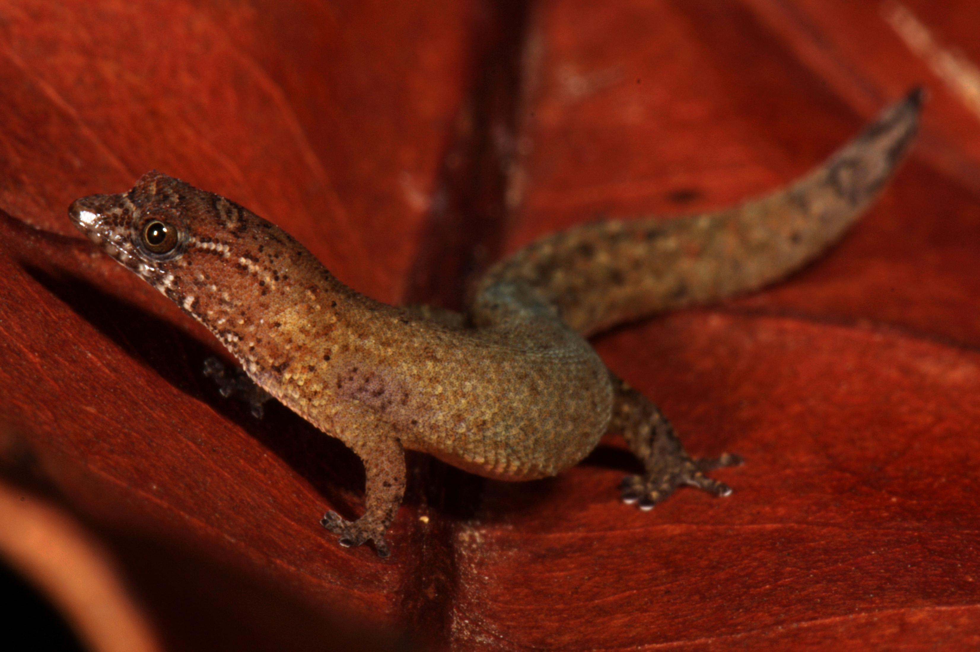 Female Sphaerodactylus parthenopion from Mahoe Bay, Virgin Gorda